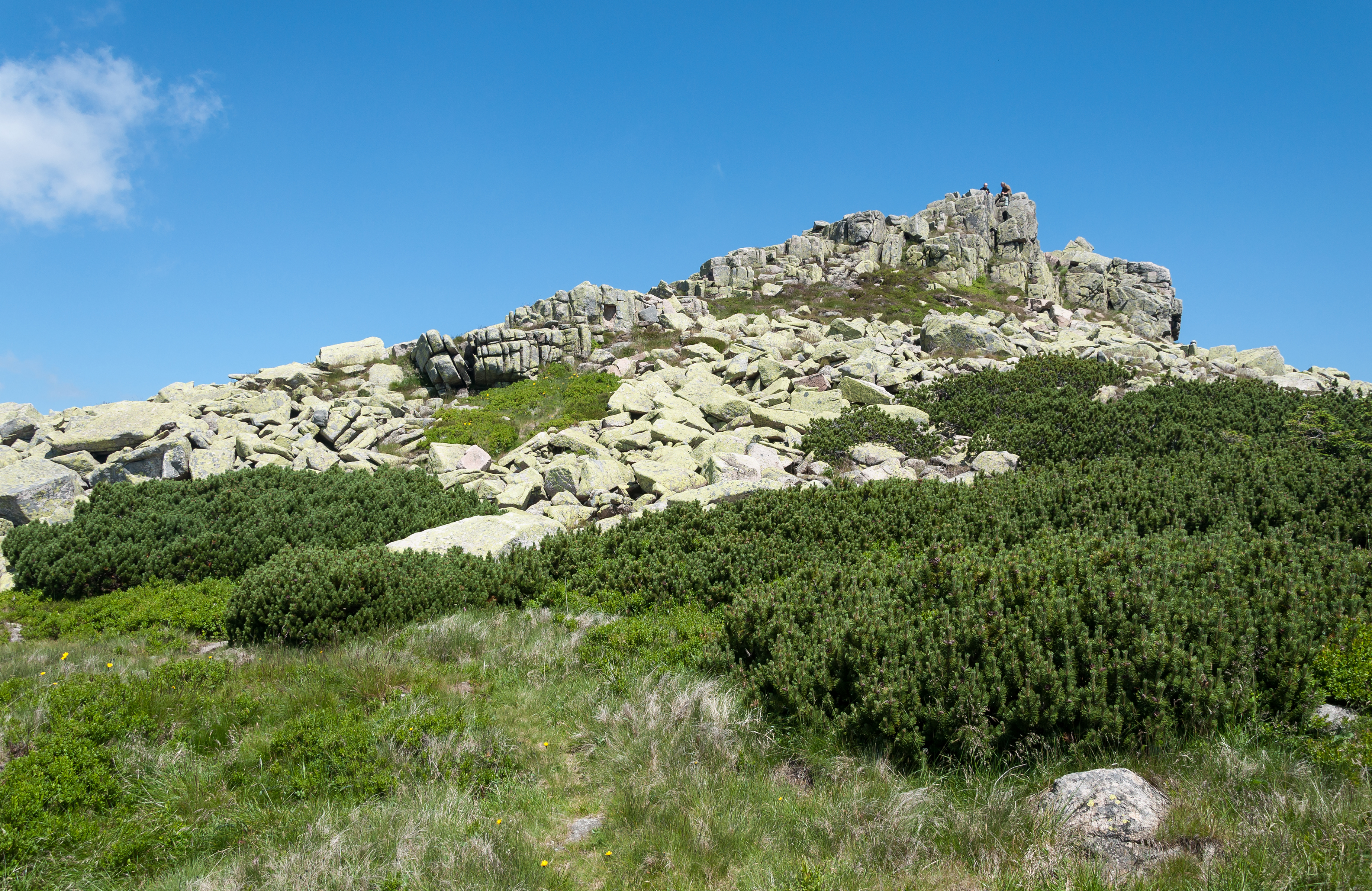 Łabski Szczyt, Karkonosze, Sudetes